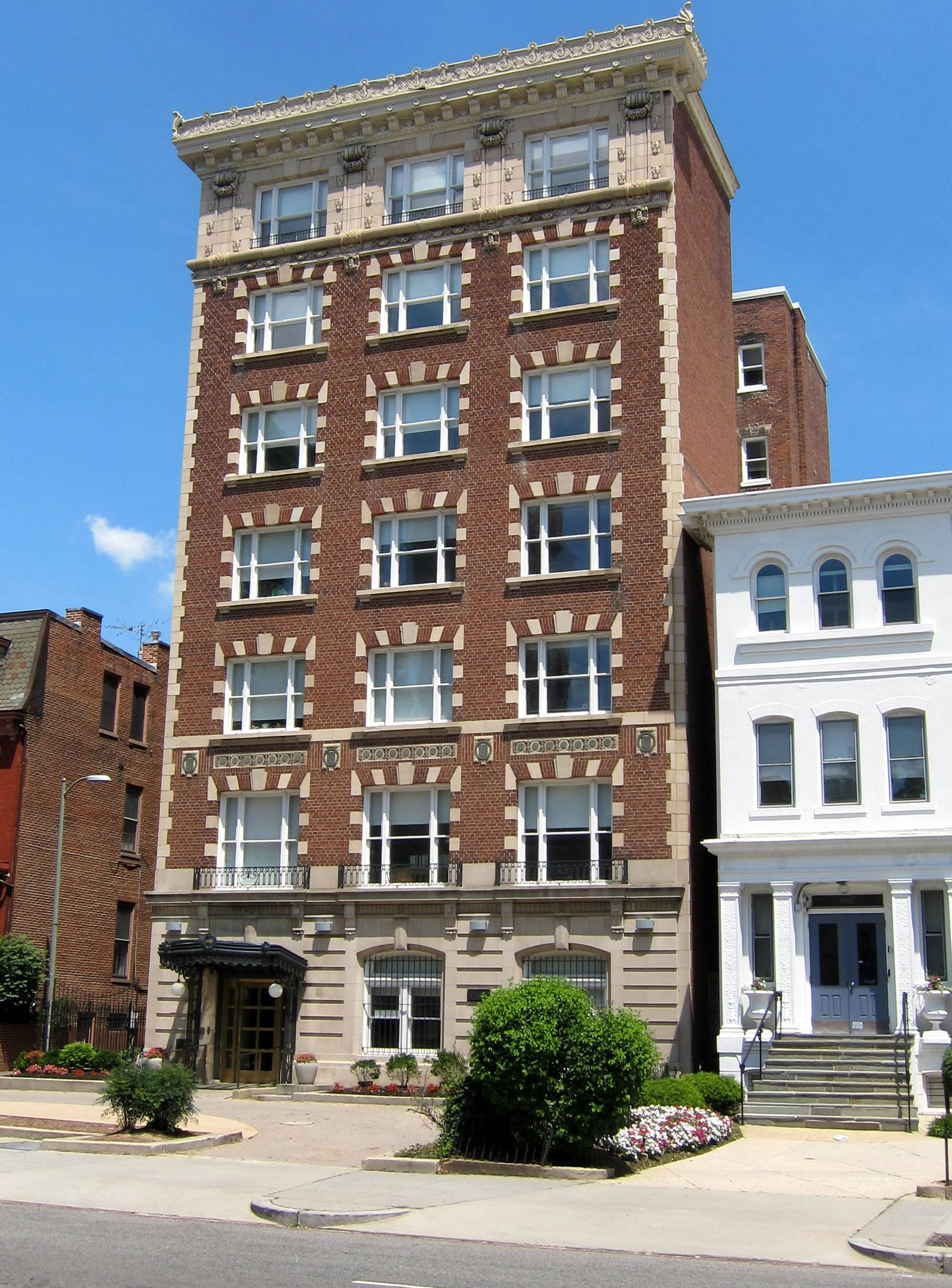 Headquarters of Family Matters of Greater Washington located at 1509 16th Street, N.W., in the Dupont Circle neighborhood of Washington, D.C. Built in 1909 to the designs of architectural firm Averill, Hall & Adams, the Italianate-style former apartment building and hotel is designated as a contributing property to the Sixteenth Street Historic District, listed on the National Register of Historic Places in 1978. Former occupants include Albert S. Burleson, Timothy T. Ansberry, Champ Clark, Christian Inn, Christian Service Corporation, Albert B. Cummins, John W. Davis, Charles B. Howry, Frances P. Keyes, William F. McDowell, National Association for the Education of Young Children, and John K. Shields.